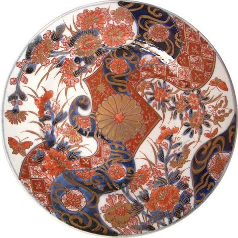 Photo of an Imari plate (XVIIIth century, Arita, Japan).Au centre en or, kikumon (sceau)impérial The photo is by Georges Le Gars from " IMARI, faïences et porcelaines du Japon, de Chine, et d'Europe" page 95 . Publisher : MASSIN, Paris [1] [2]